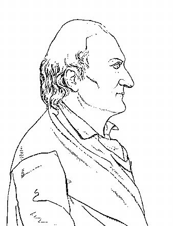 Alberto Fortis (1741 - 1803), Italian natural scientist